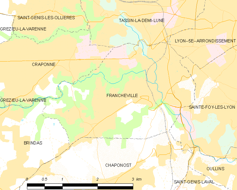 Map of French municipality